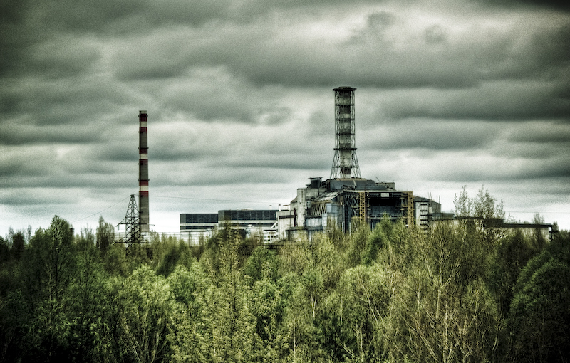 After the explosion at Reactor 4 the people of Pripyat flocked on the railway bridge just outside the city to get a good view of the reactor and see what had happened. Initially, everyone was told that radiation level was minimal and that they were safe. Little did they know that much of the radiation had been blown onto this bridge in a huge spike. The levels here were very near lethal.